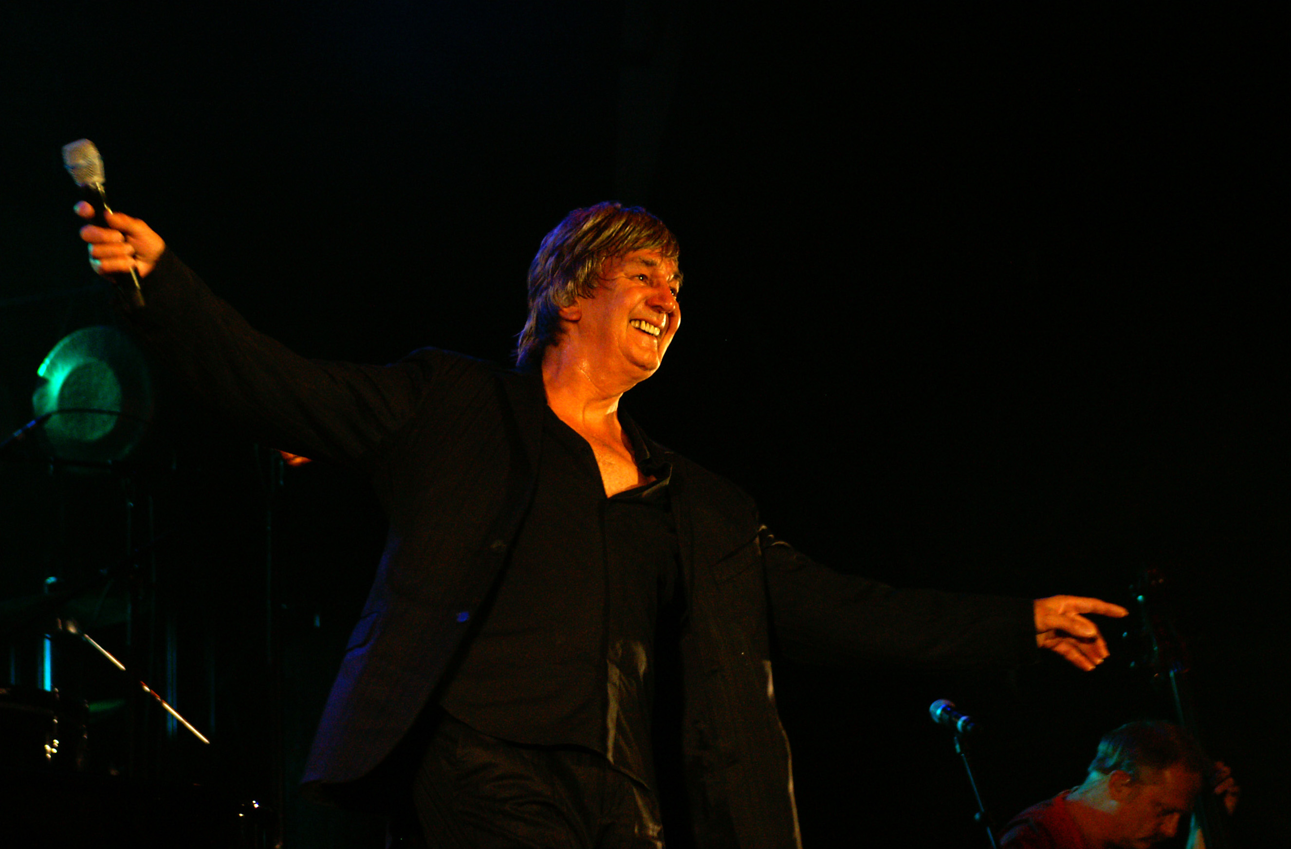 Jacques Higelin live at Aux Zarbs festival (Auxerre, France).